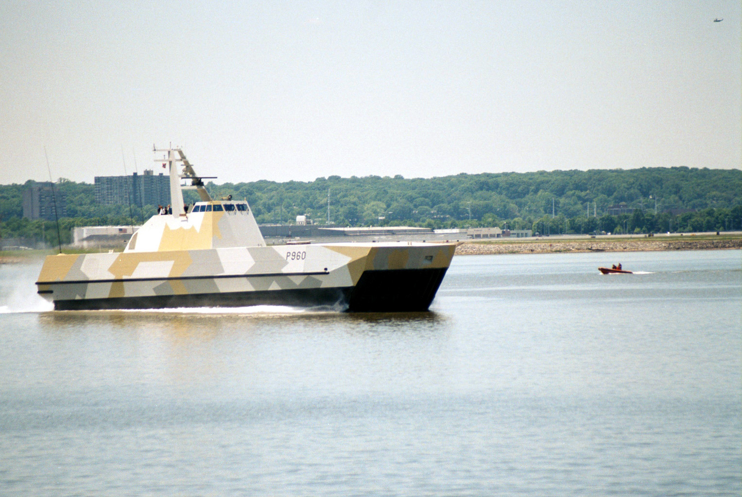 KNM SKJOLD (P 690), Royal NORWEGIAN Navy Skjold-class Fast Patrol Craft, on the Potomac River. The vessel is painted in a splinter camouflage pattern.